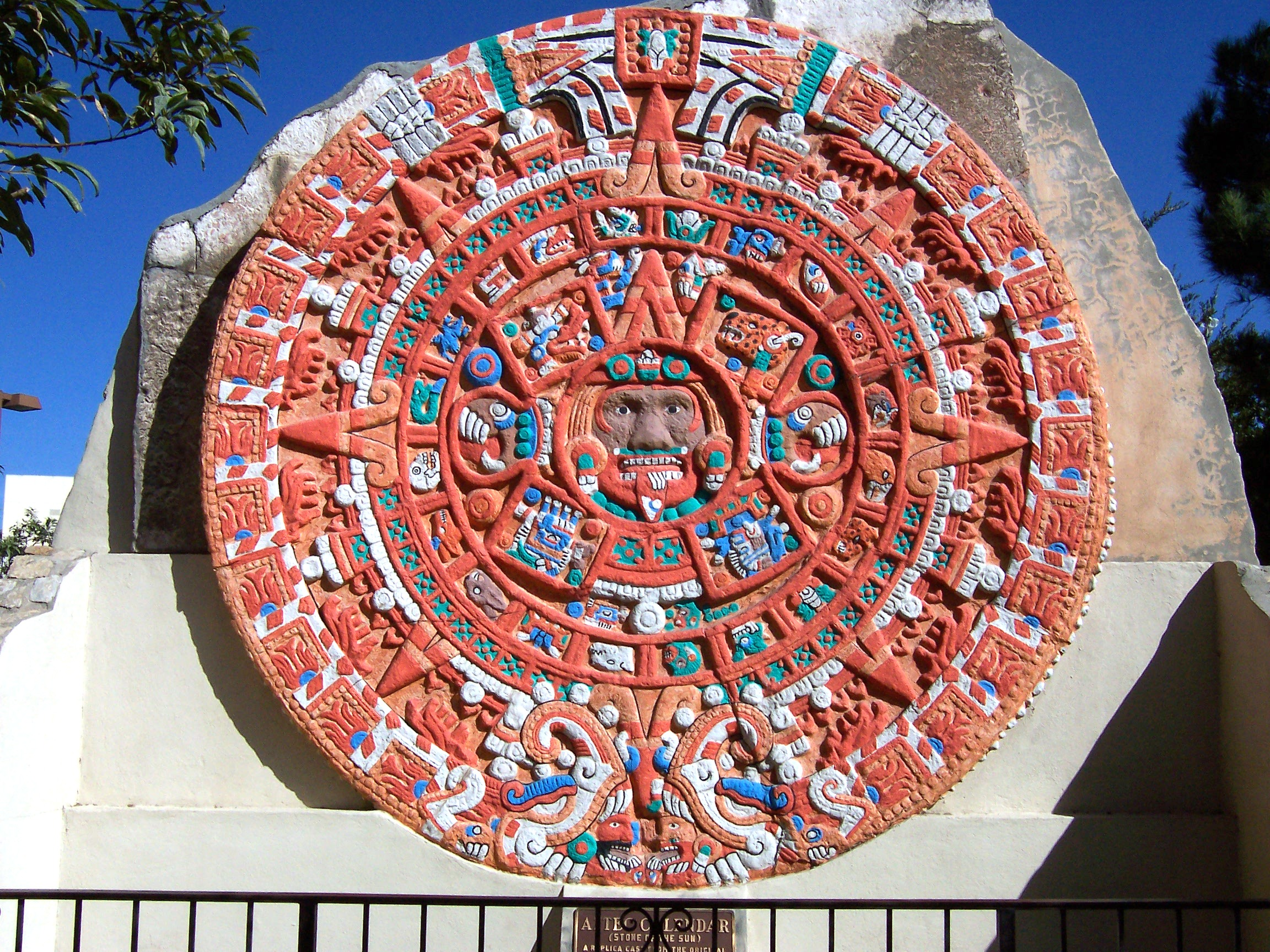 Replica of the Aztec sun stone, from the original found in the city formerly known as Tenochtitlan. Replica was cast from the original in the Museo Nacional de Antropología, in Chapultepec Park, Mexico City, Mexico. Replica presented to city of El Paso, Texas by Pemex.